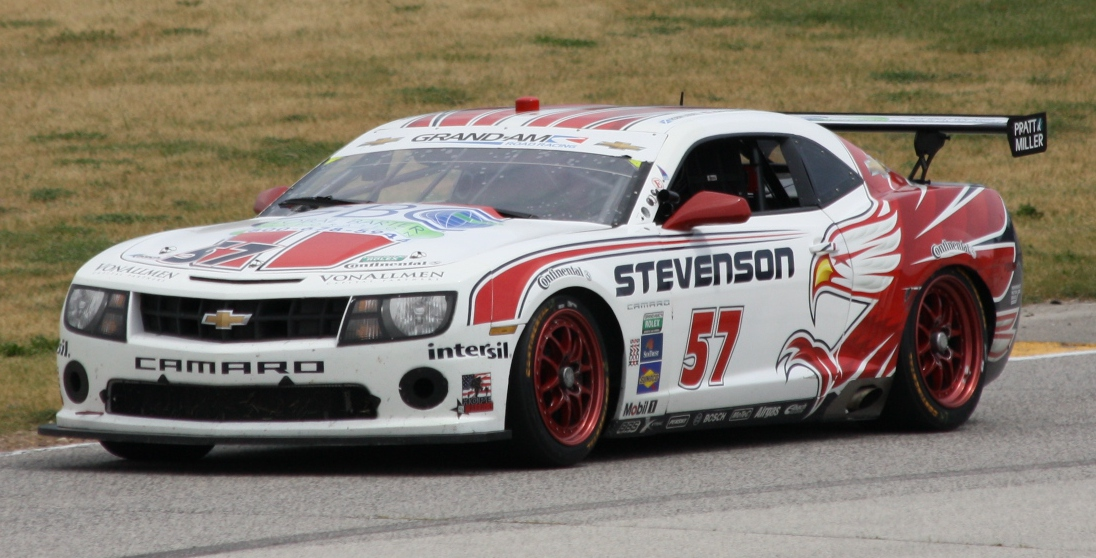 The Stevenson Motorsports GT car driven by John Edwards and Robin Liddell at a 2012 race at Road America.